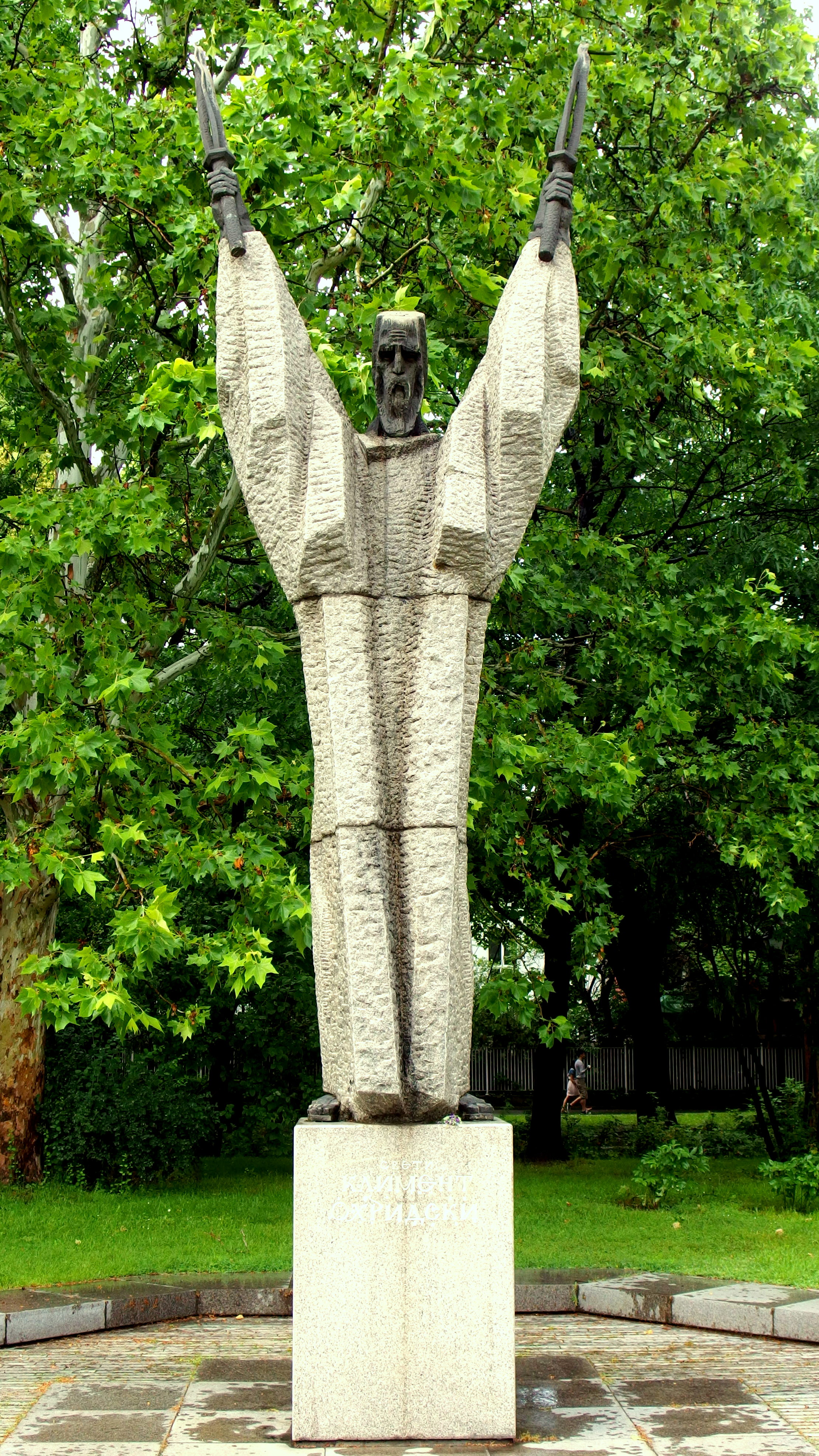 2014-06-16 in Sofia.